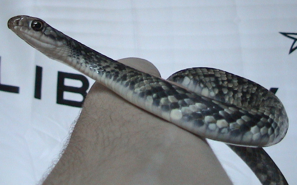 Photographer: User:Dawson